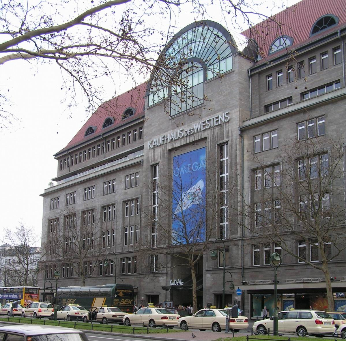 Berlin - main entrance of the Kaufhaus des Westens (KaDeWe)